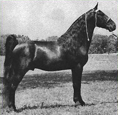 Midnight Sun (1940-1965), world champion Tennessee Walking Horse. See Midnight Sun